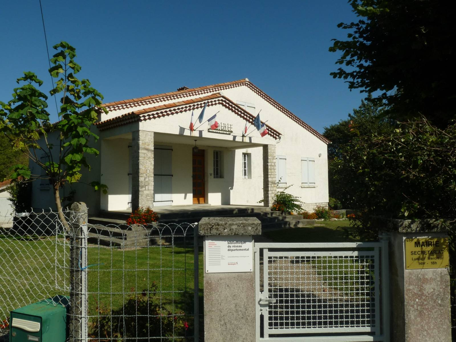 town hall of Nanteuil-de-Bourzac, Dordogne, SW France